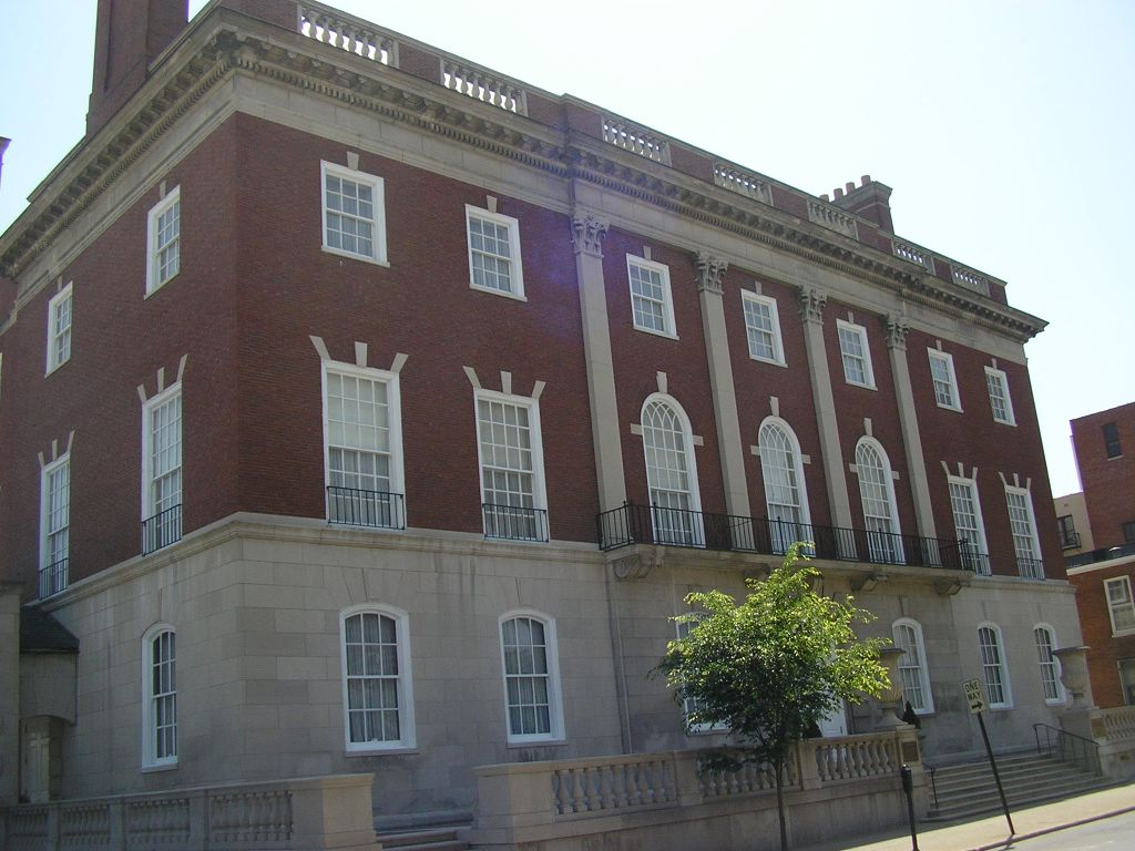 Pendennis Club.